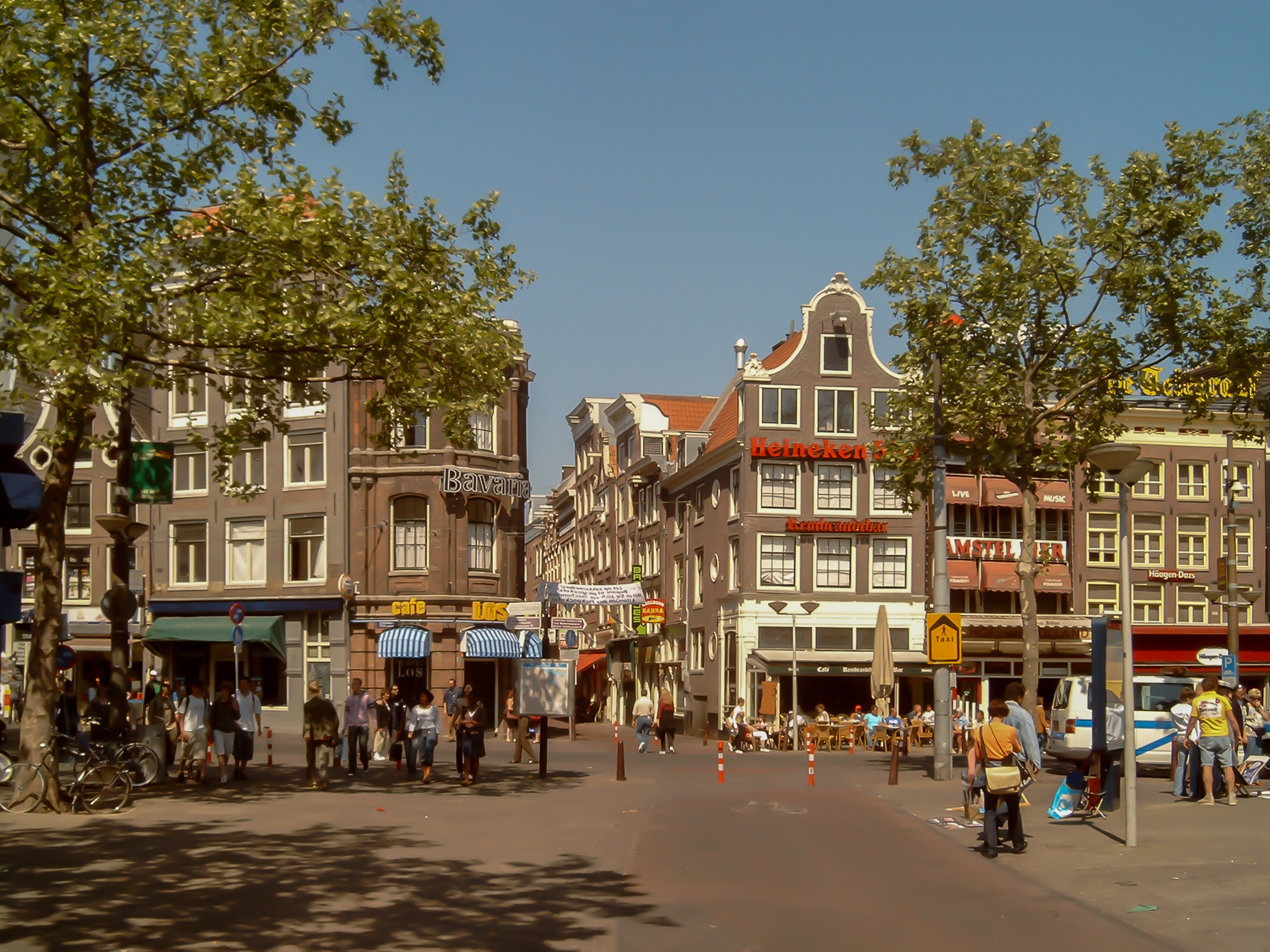 Amsterdam, Rembrandtplein